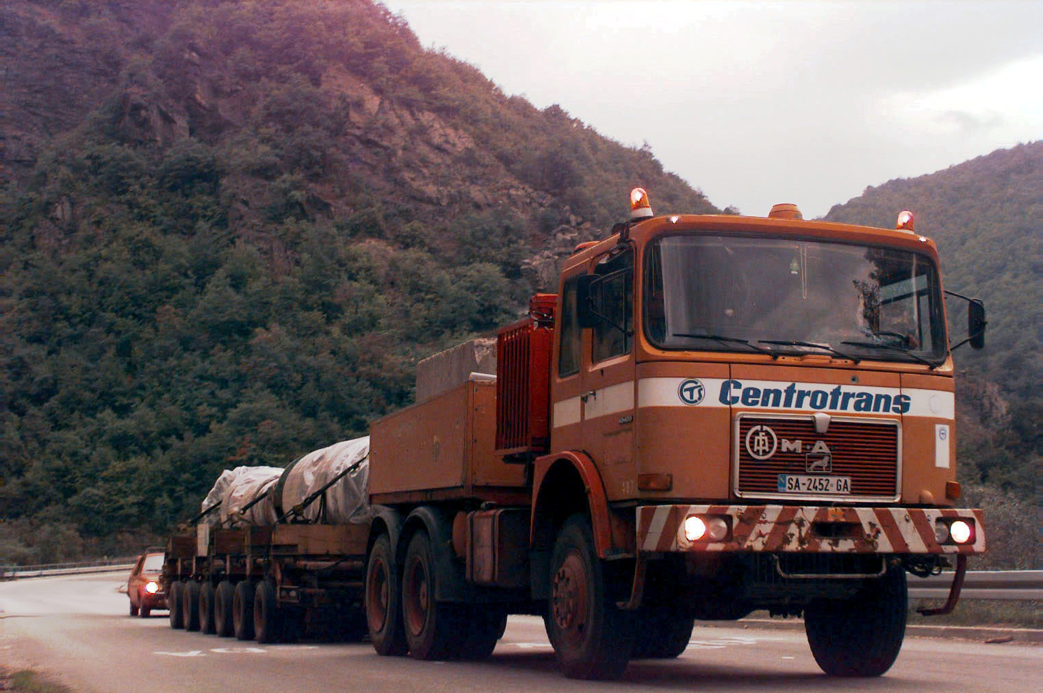 A commercial MAN-truck, tows a multi-wheeled trailer carrying a 70-ton turbine shaft. This turbine shaft was refurbished in Austria and is headed to a major hydroelectric plant in Salakovac, Bosnia-Herzegovina, which provided electrical power to the southern federation, but has not been in operation for four years.